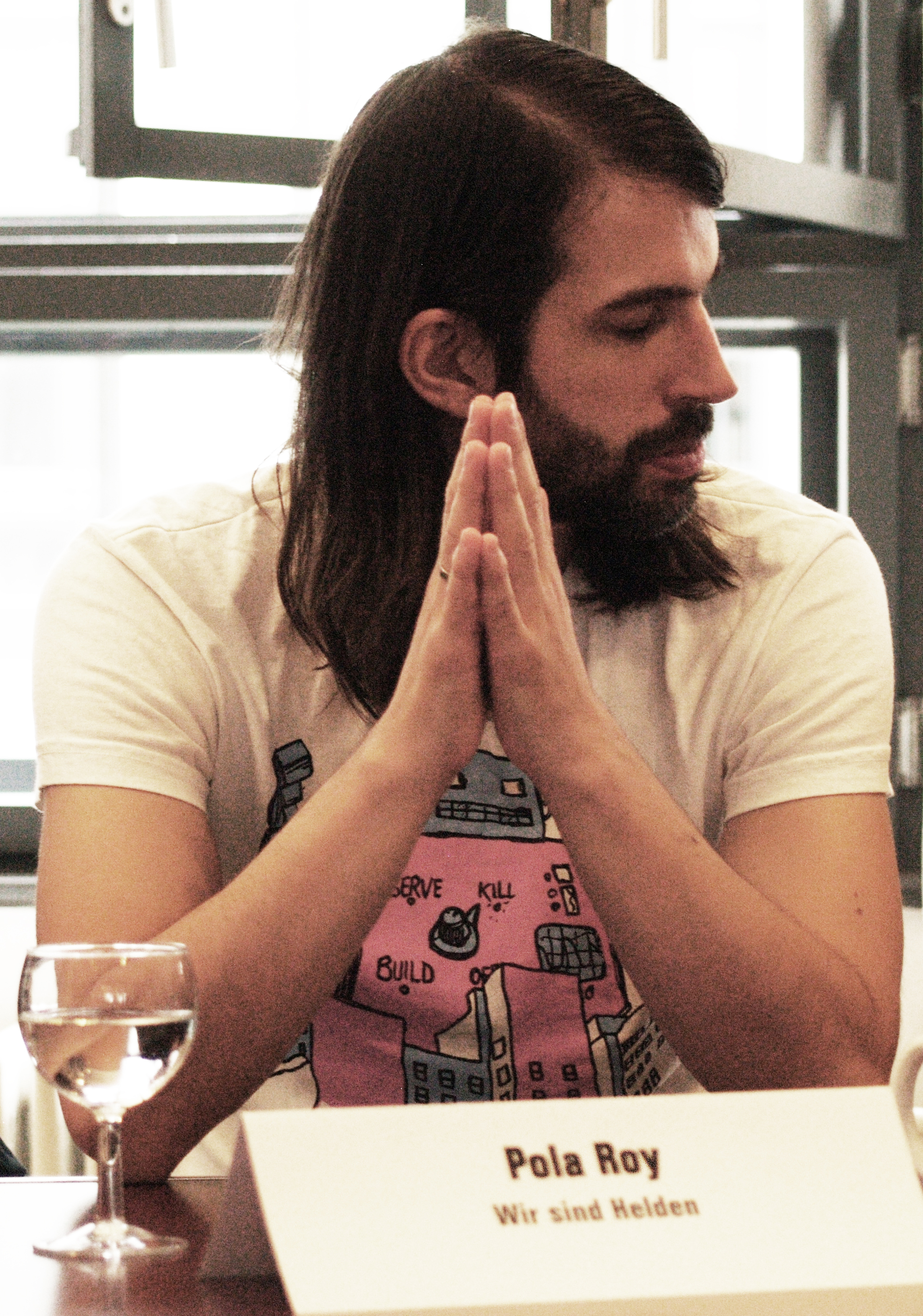 pola roy - drummer of the german pop band "wir sind helden"